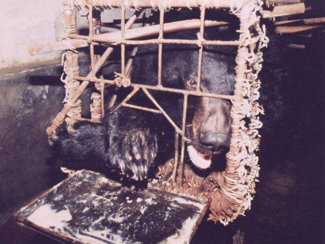 Photograph of Elizabeth, a bile bear kept in captivity so that her bile can be extracted. The image was taken by the Asian Animal Protection Network in Huizhou Farm, Vietnam. She has since been removed from the farm. Source: [1] License: Released by the copyright holder by e-mail.